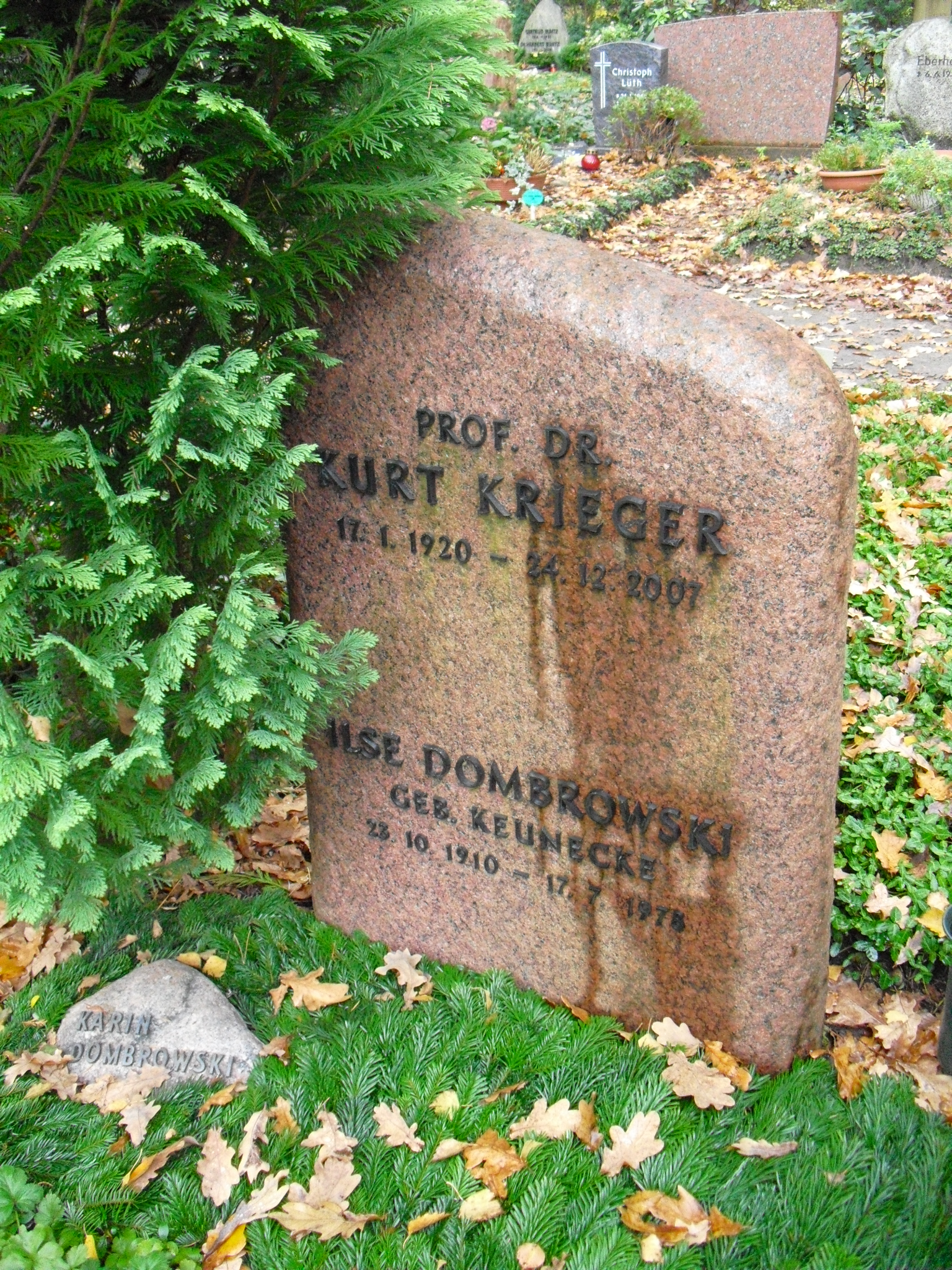 Grave of ethnologist Kurt Krieger at Friedhof Heerstraße in Berlin-Westend